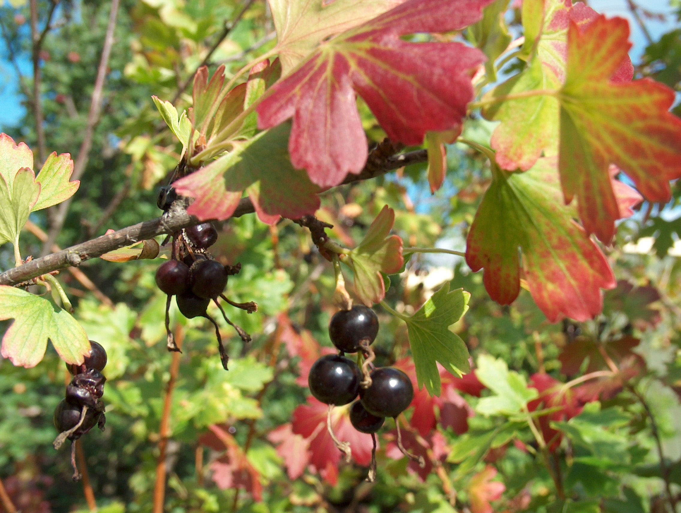 Ribes aurium with berries